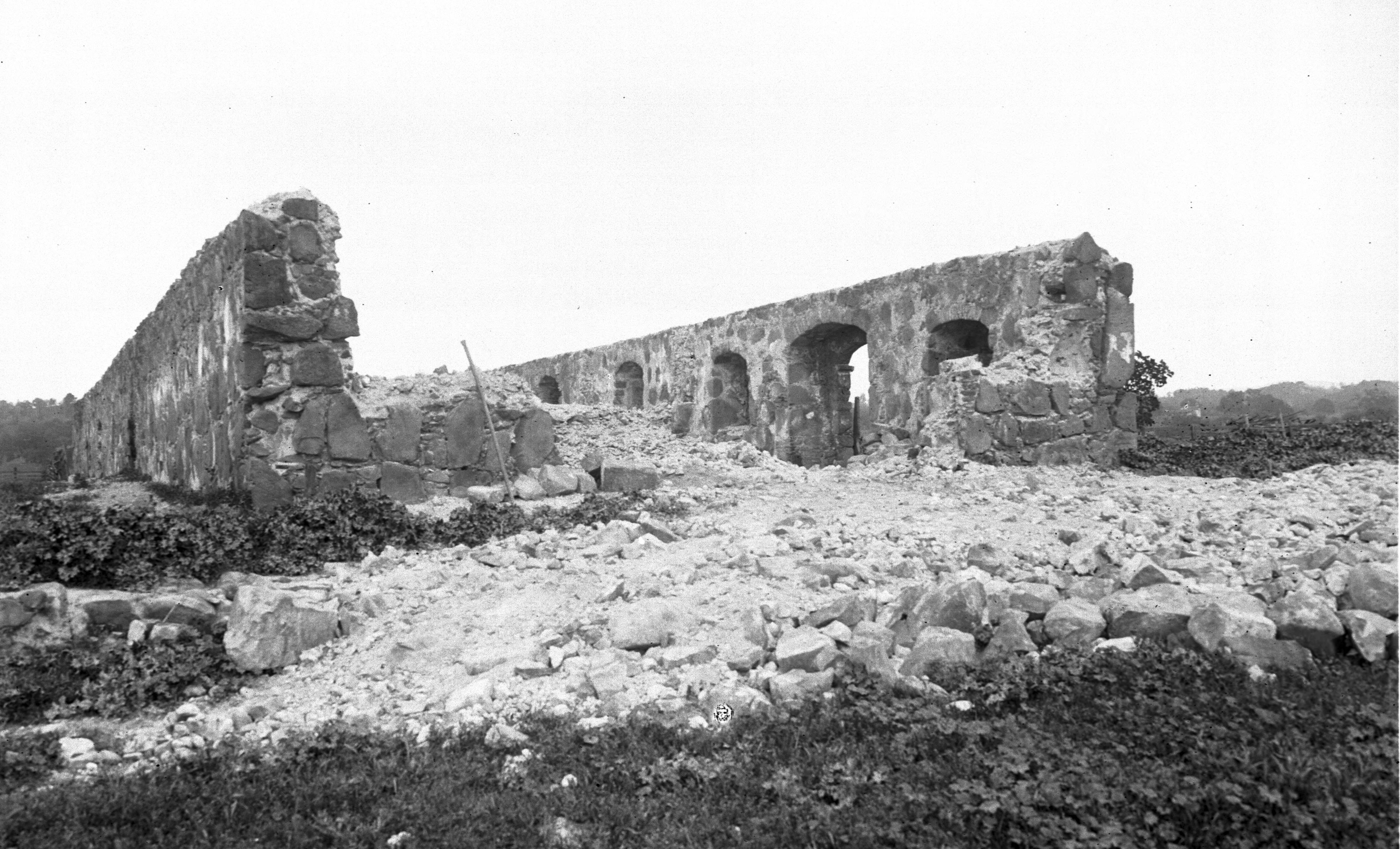 Ruins of the walls of Mission Santa Margarita, California, ca.1906 Photograph of the ruins of the walls of Mission Santa Margarita, California, ca.1906. Two long walls face each other. The one on the right is punctuated with numerous door and/or window openings. Stone debris lays on the ground in the foreground. Wild vegetation surrounds the area. A long rod or walking stick lays against the ruin at front. Part of a post and rail fence is visible in the background at left. Call number: CHS-4065 Photographer: Pierce, C.C. (Charles C.), 1861-1946 Filename: CHS-4065 Coverage date: circa 1906 Part of collection: California Historical Society Collection, 1860-1960 Format: glass plate negatives Type: images Part of subcollection: Title Insurance and Trust, and C.C. Pierce Photography Collection, 1860-1960 Repository name: USC Libraries Special Collections Accession number: 4065 Microfiche number: 1-139-6 Archival file: chs_Volume96/CHS-4065.tiff Repository address: Doheny Memorial Library, Los Angeles, CA 90089-0189 Geographic subject (country): USA Format (aacr2): 2 photographs : glass photonegative, photoprint, b&w ; 17 x 22 cm. Rights: Digitally reproduced by the USC Digital Library; From the California Historical Society Collection at the University of Southern California Subject (adlf): religious facilities Project: USC Repository Contributing entity: California Historical Society Date created: circa 1906 Publisher (of the digital version): University of Southern California. Libraries Format (aat): photographic prints; photographs Geographic subject (state): California Subject (file heading): Mission San Miguel Arcangel (Santa Margarita Asistencia); Missions -- Mission Santa Margarita Asistencia Legacy record ID: chs-m16575; USC-1-1-1-14092 Access conditions: Send requests to address or e-mail given. Phone (213) 821-2366; fax (213) 740-2343. Geographic subject (county): San Luis Obispo Subject (lcsh): Missions, Spanish Subject: Santa Margarita Asistencia Mission